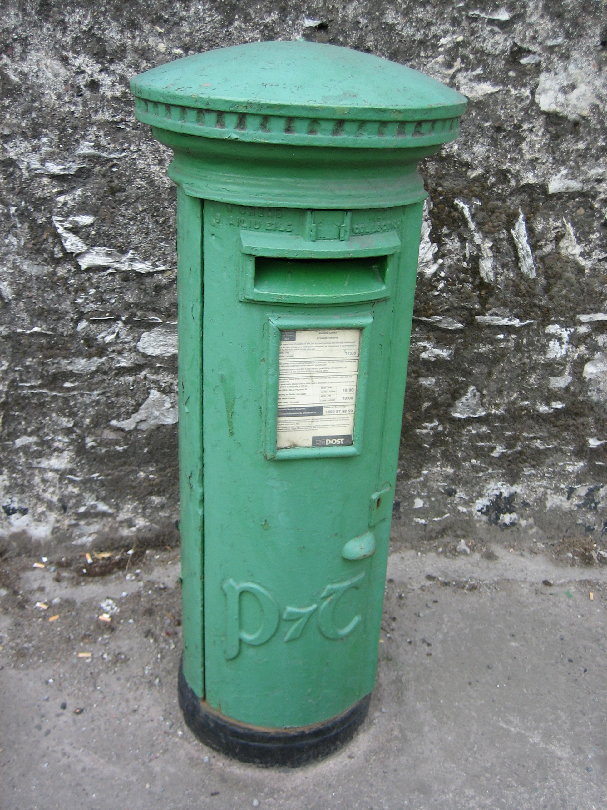 Type A pillar box ay Victoria Cross, Cork City, in the Republic of Ireland with Aire Puist agus Telegrafa ("Minister for Posts and Telegraphs") initials on the door